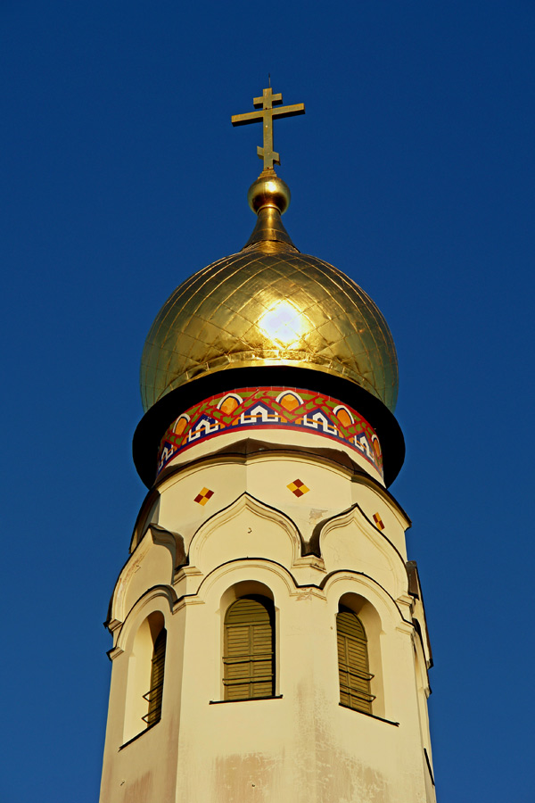 The only gold-plated Oldbeliever's church in world